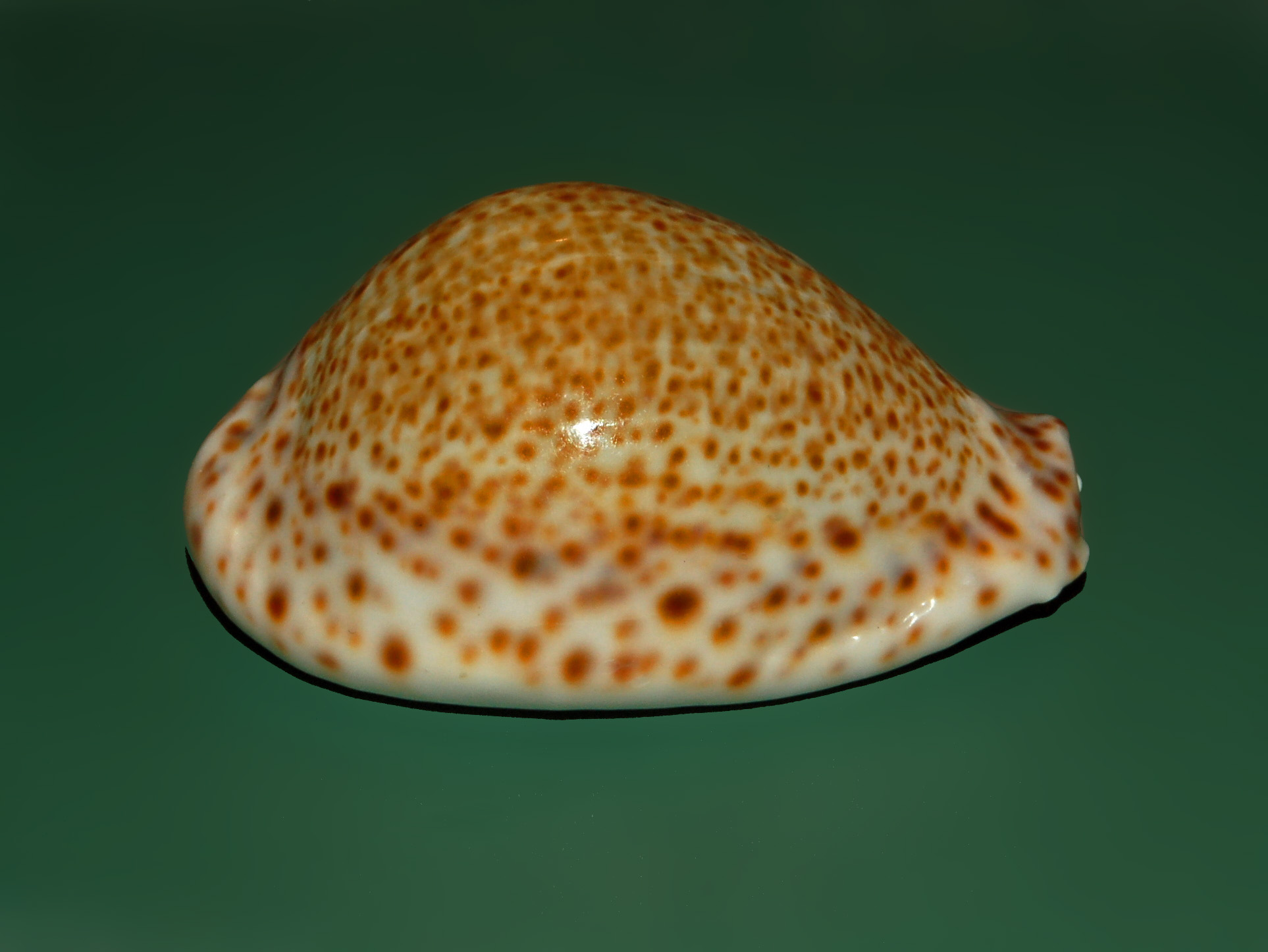 Naria turdus